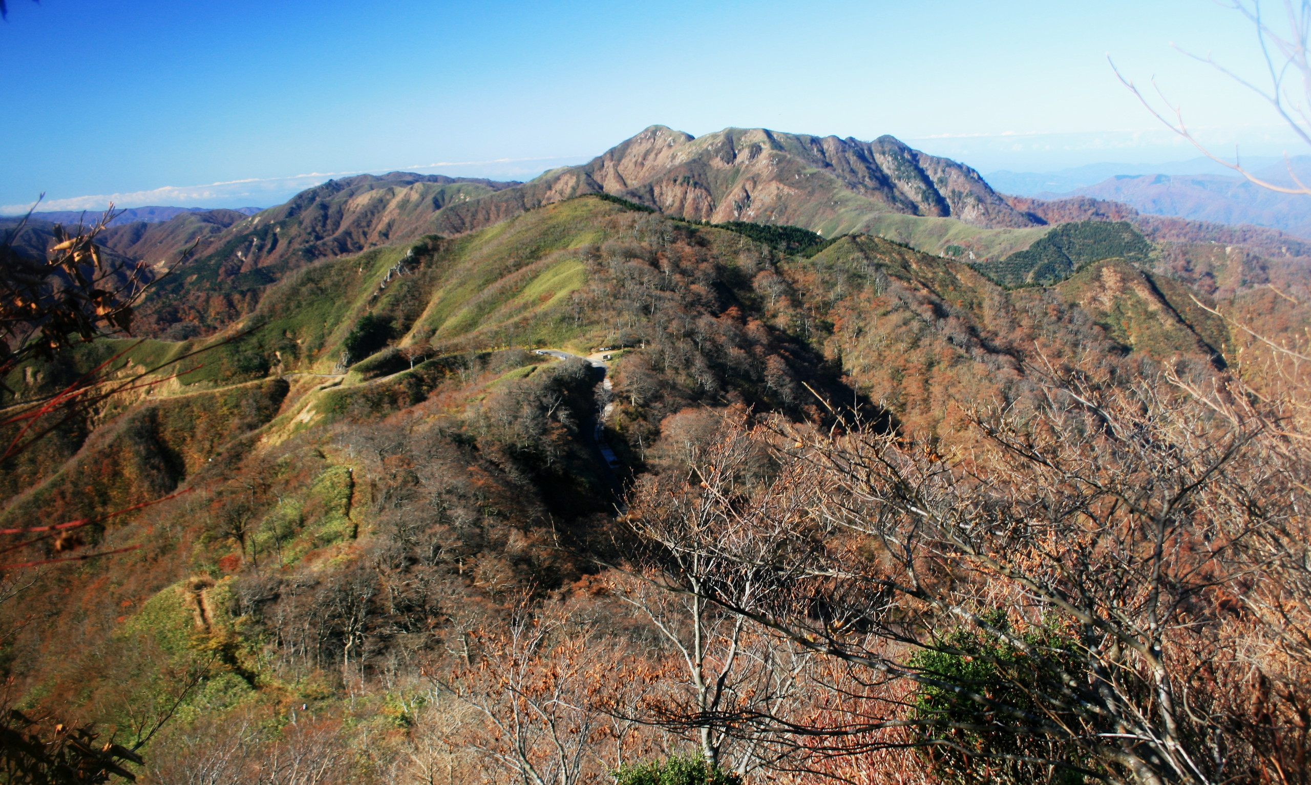 Mount Kanakusa and Kanmuriyama Pass seen from Mount Kanmuri